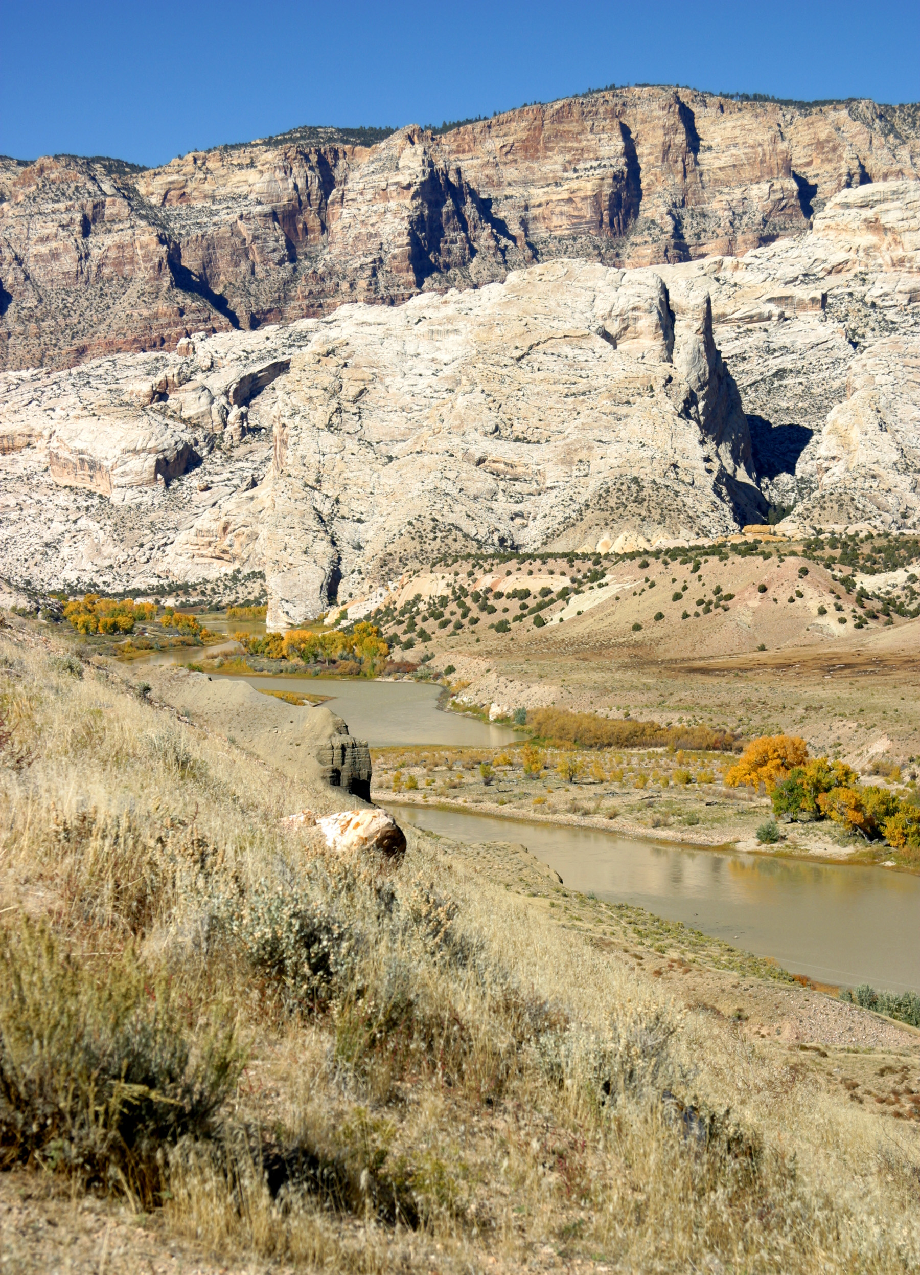 A view of the Green River facing up river towards Split Mountain and Split Mountain Campground (middle left) in Dinosaur National Monument.